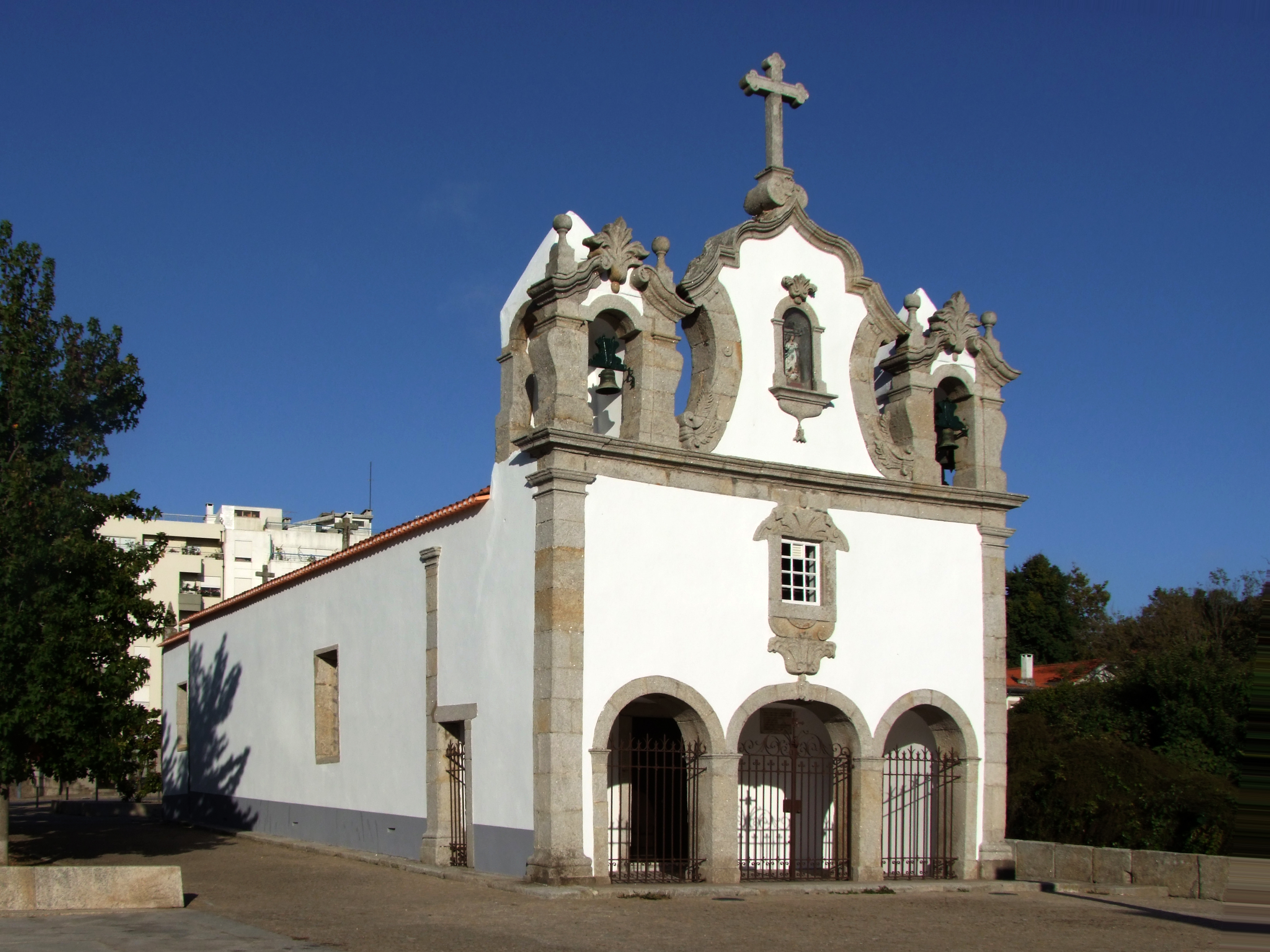 Nossa Senhora da Conceição Chapel, Foz do Douro, Porto, Portugal.